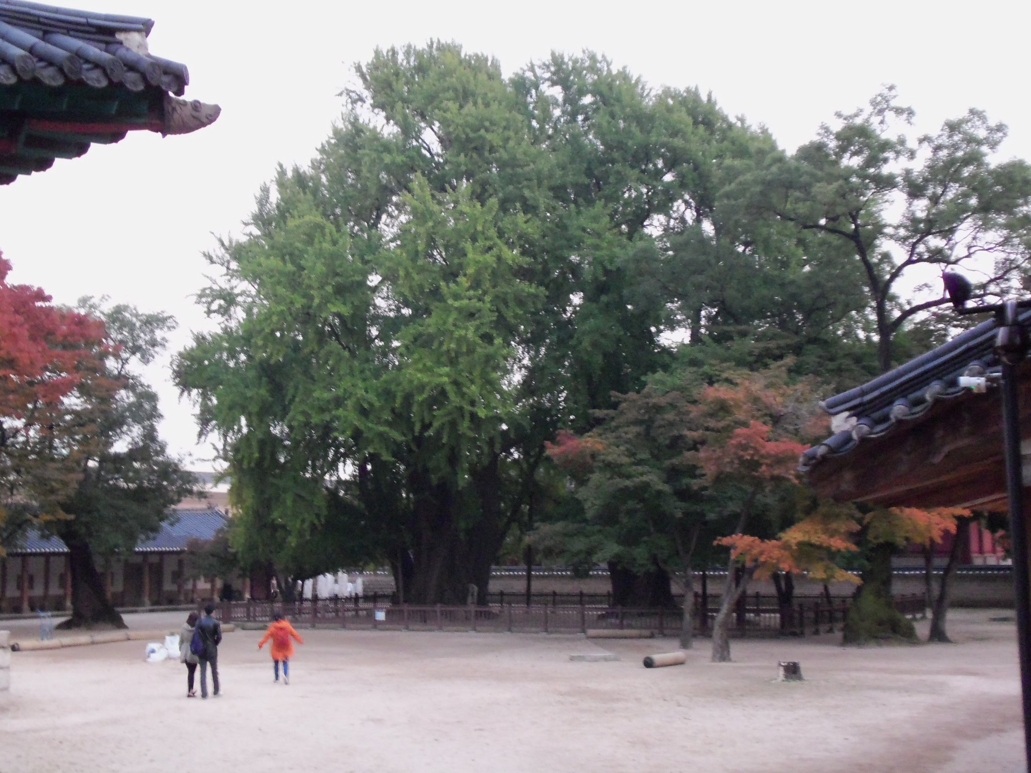 The historic Sungkyunkwan in Seoul.